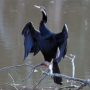 Australasian darter, Anhinga novaehollandiae, male